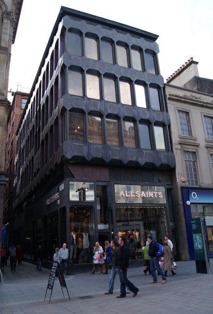 Former BOAC Building. This copper cladded building is the former British Overseas Aircraft Corporation Glasgow HQ building on Buchanan Street. Opened in 1970 to a design by the Glasgow firm of Gillespie Kidd & Coia. It was given a 'B' Listing in 1988 and is amongst the youngest buildings to be so listed. See also 1756766.